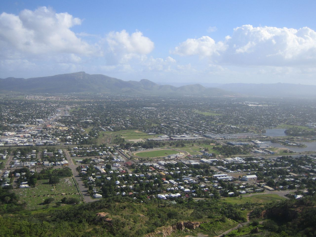 Townsville from Castle Hill